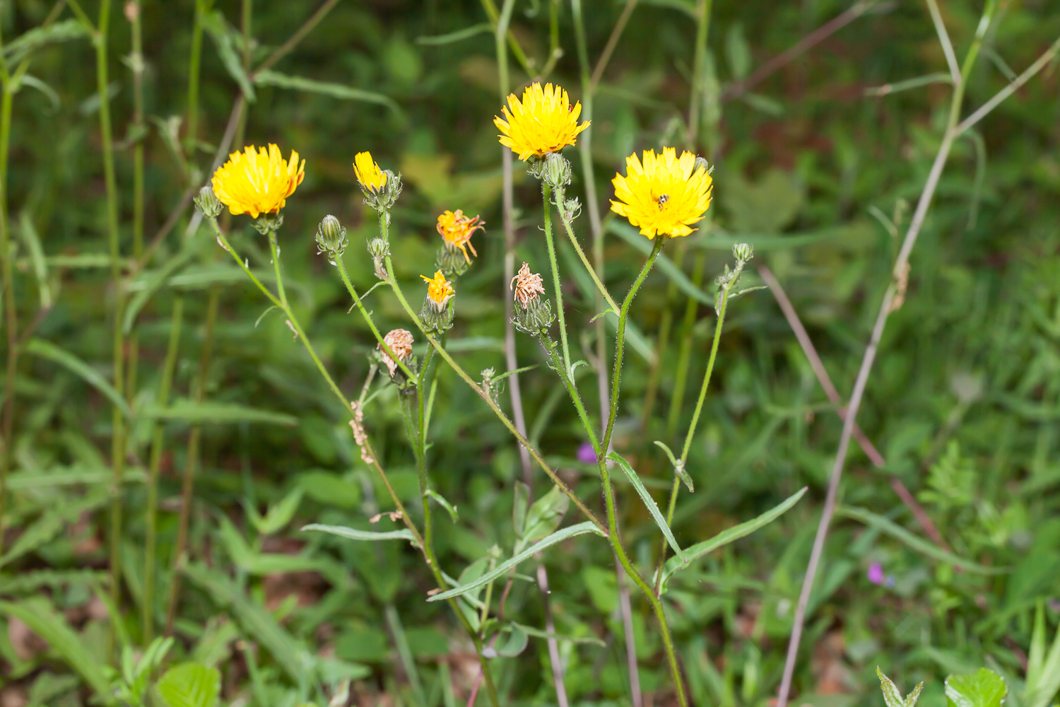 Picris hieracioides and Insect. Valverde, Vilarromarís, Oroso, Galicia, Spain